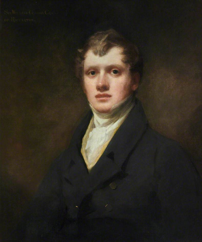 In the great freedom of his late style, Raeburn has captured all his sitter’s youthful energy and the promise that he was indeed to fulfil. As Sir William Gibson-Craig he was to become Lord Clerk Register, Keeper of the Signet of Scotland and a member of the Privy Council.